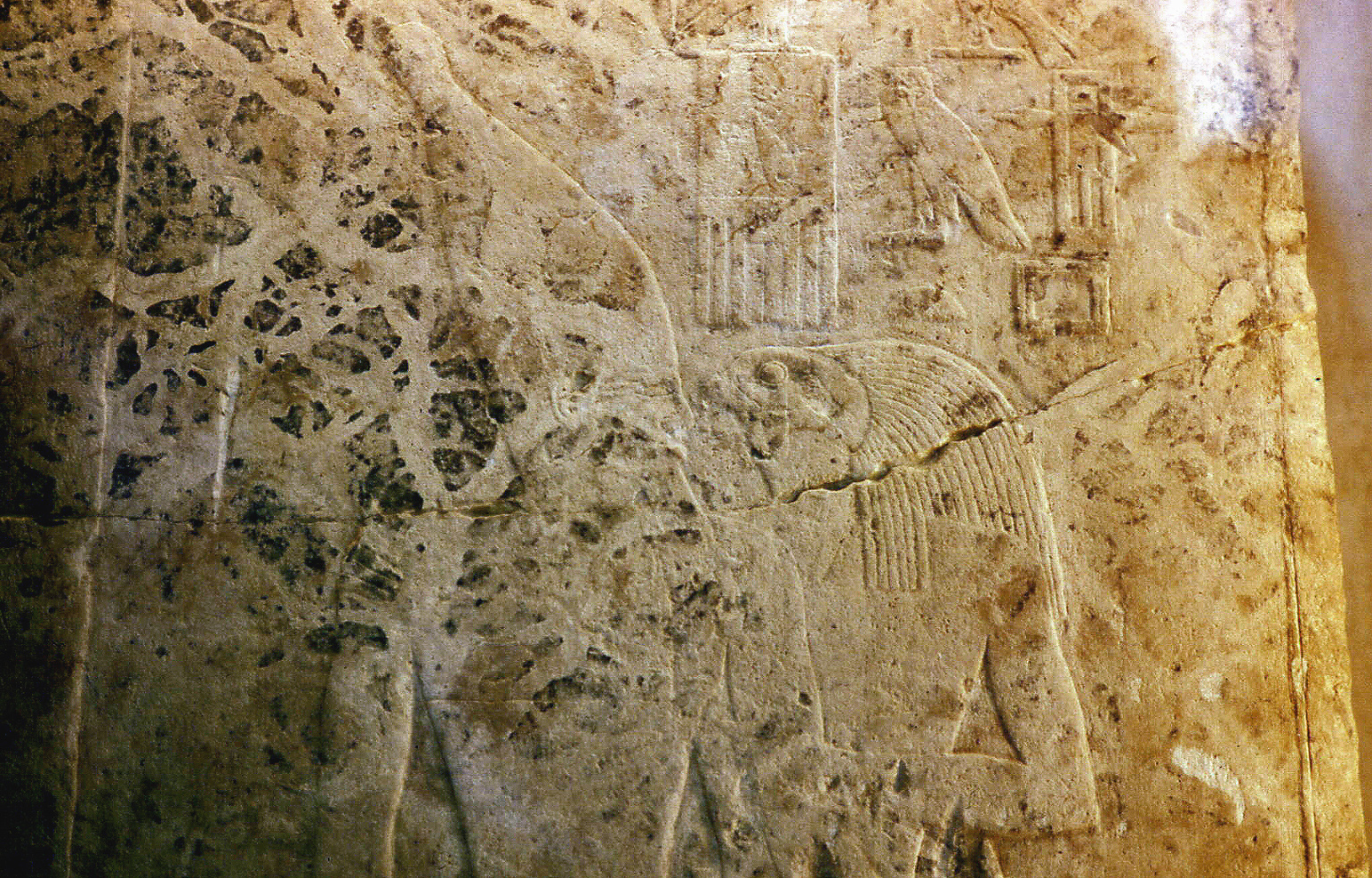 Stela of Qahedjet, whose identification is uncertain (Huni ? a voluntarily archaic representation of Thutmose ?) The authenticity of the stela is also questioned. Louvre. Louvre - E 25982